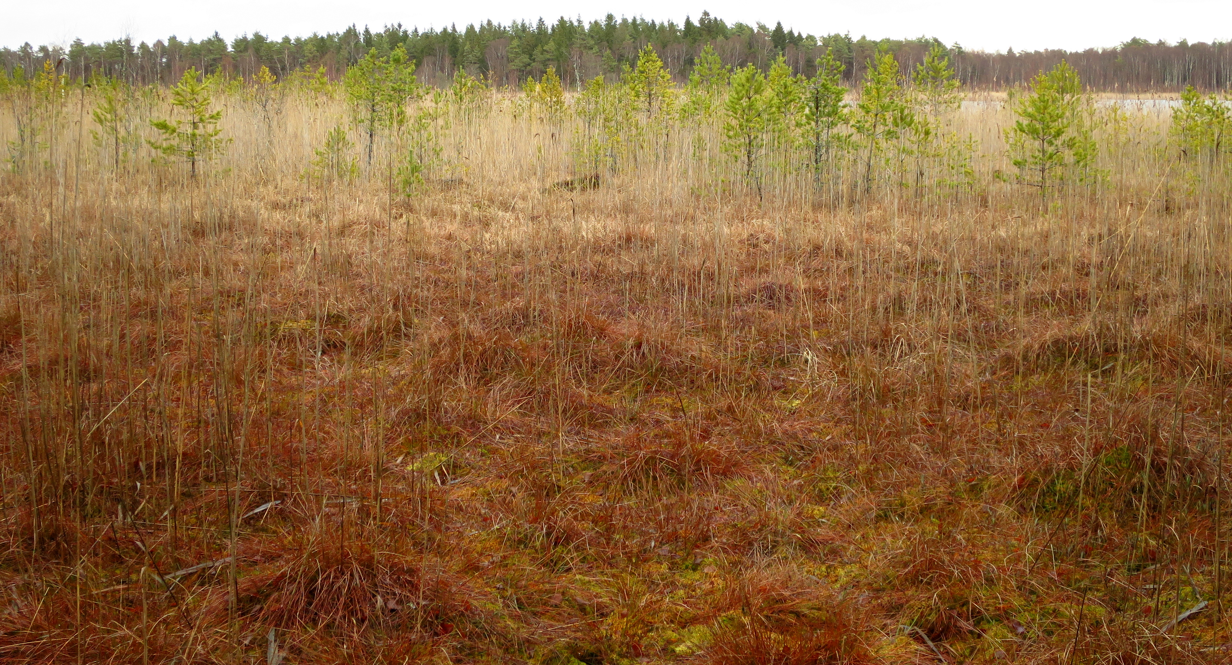 Õõtsik Järlepa järve kaldal Mahtra looduskaitsealal